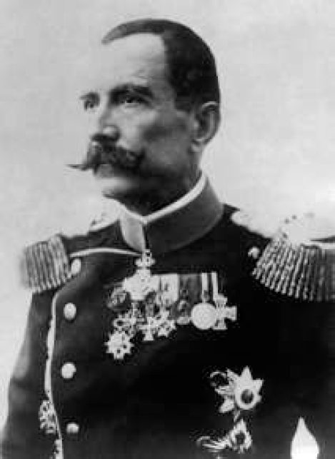 General BojovicСрпски (ћирилица): Генерал Бојовић у свечаној униформи 1913.